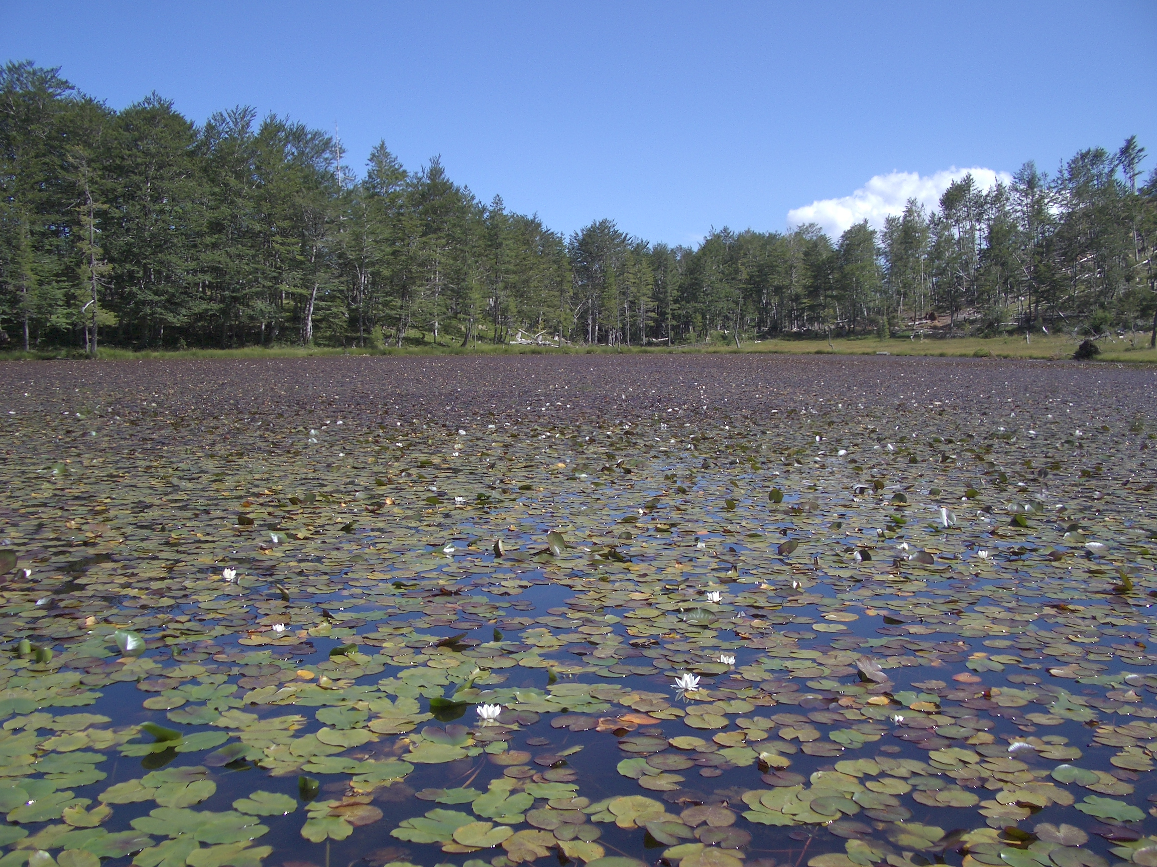 Liqeni i Lulëve, one of the Lura lakes, Albania